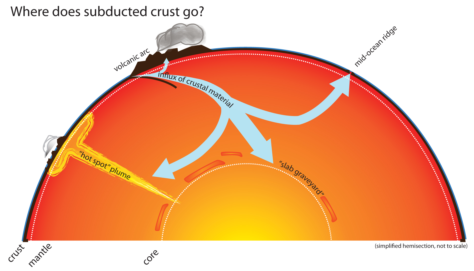 The pale blue arrows indicate the ultimate destiny of crustal material that is subducted into the mantle. The material may be incorporated into mantle plumes, recycled into overlying volcanic arcs, descend wholly to the core-mantle boundary (a proposed "slab graveyard") or absorbed into the mantle proper, mingling with the "crystal mush" and eventually being incorporated into mantle-characterized igneous rocks (like those at a mid-ocean ridge).